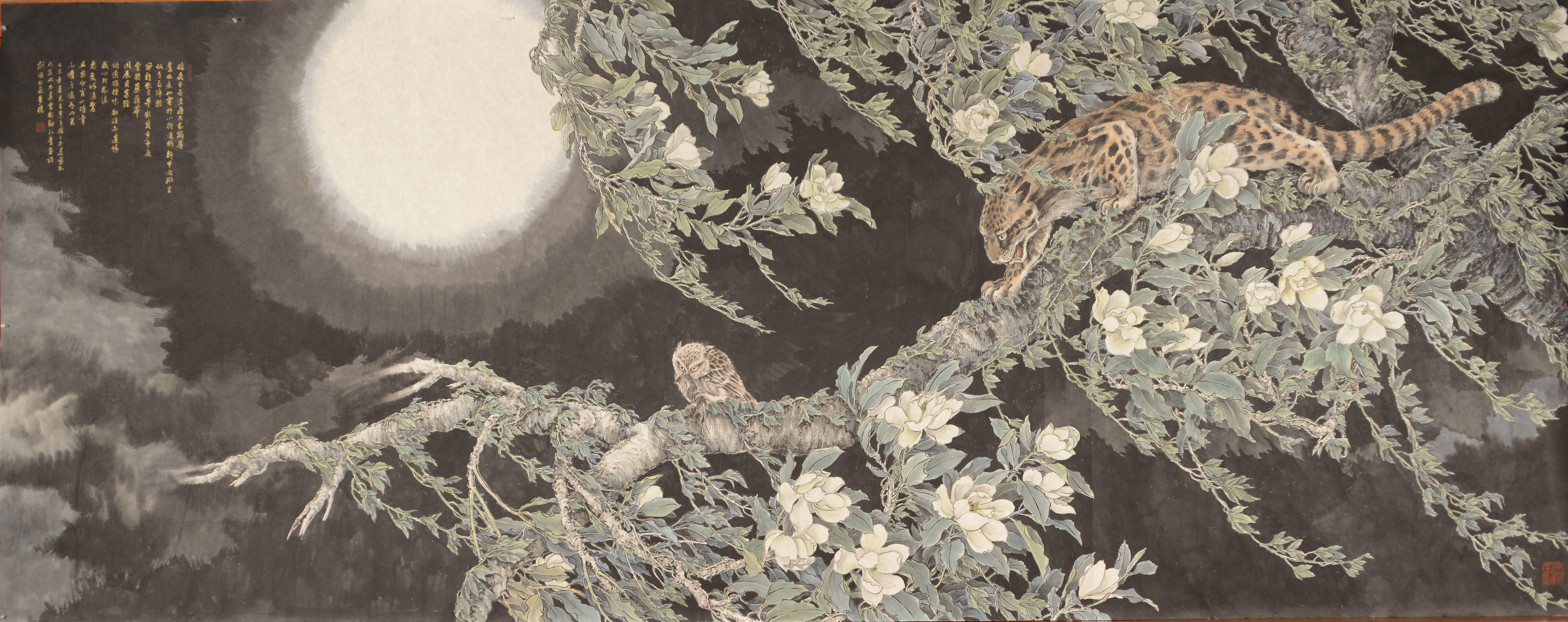 Night Hunt (2015) 中文（台灣）: 劉墉原創畫作：《月夜潛行》（2015）